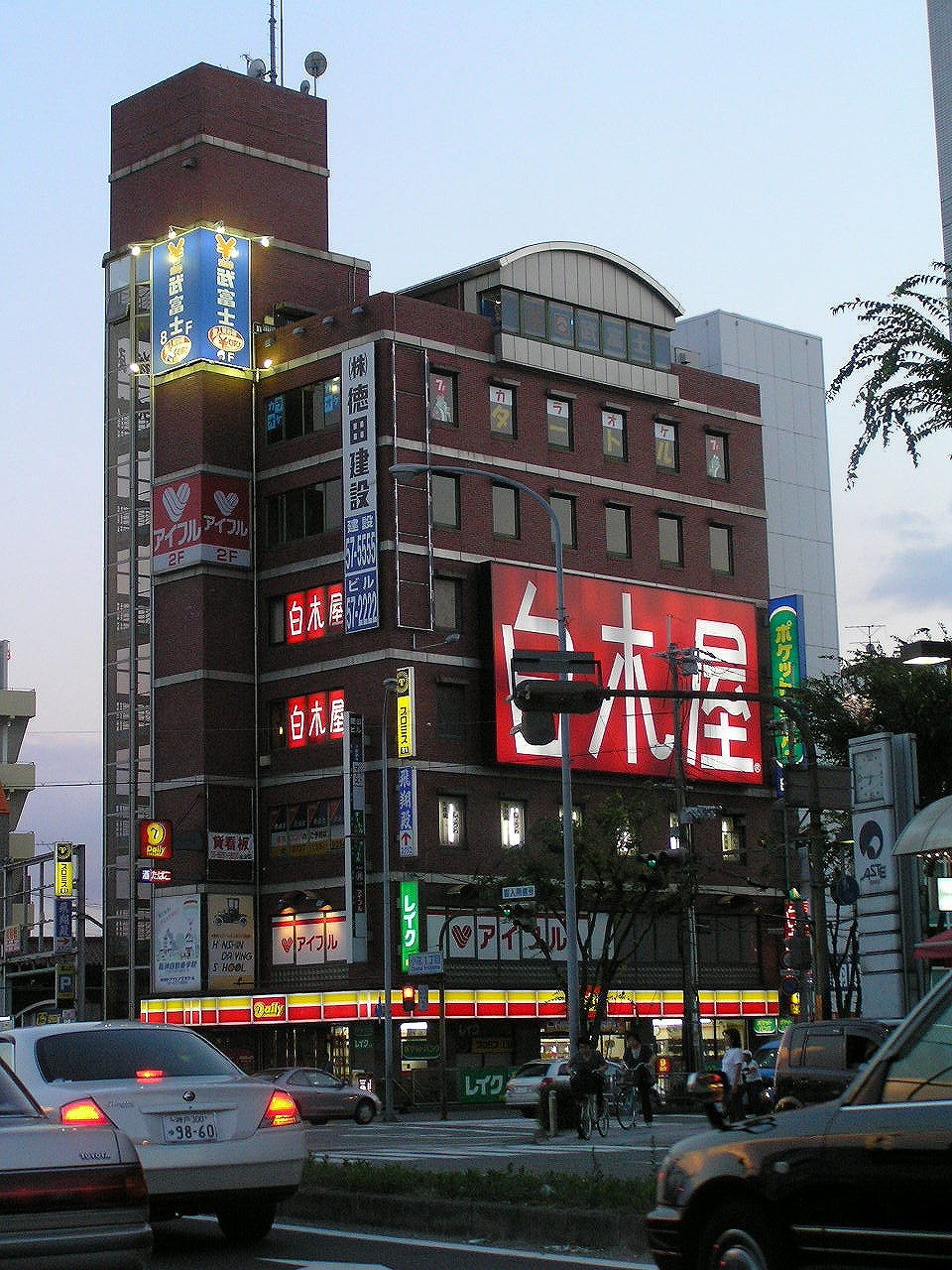 源泉館主人